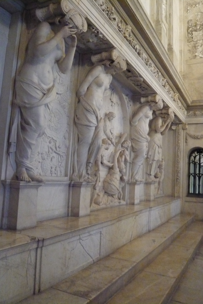 Sculpture in the Vierschaaar or tribunal of the Amsterdam City Hall (today called Palace on the Dam), designed and executed by Artus Quellinus I